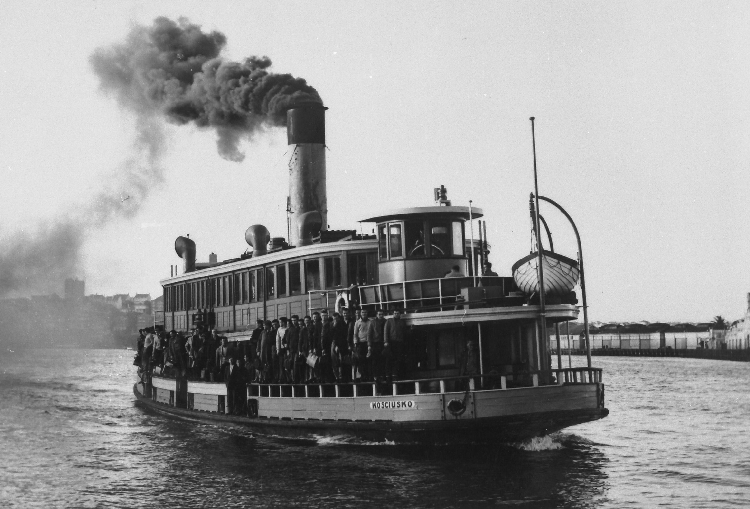 Sydney Ferry KOSCIUSKO approaches Circular Quay 1940s? Graeme Andrews, Ferry KOSCIUSKO inbound Quay. (01/01/1940 - 31/12/1949), [A-00075930]. City of Sydney Archives, accessed 12 May 2020